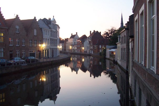 Canal in Bruges, Belgium, at dusk